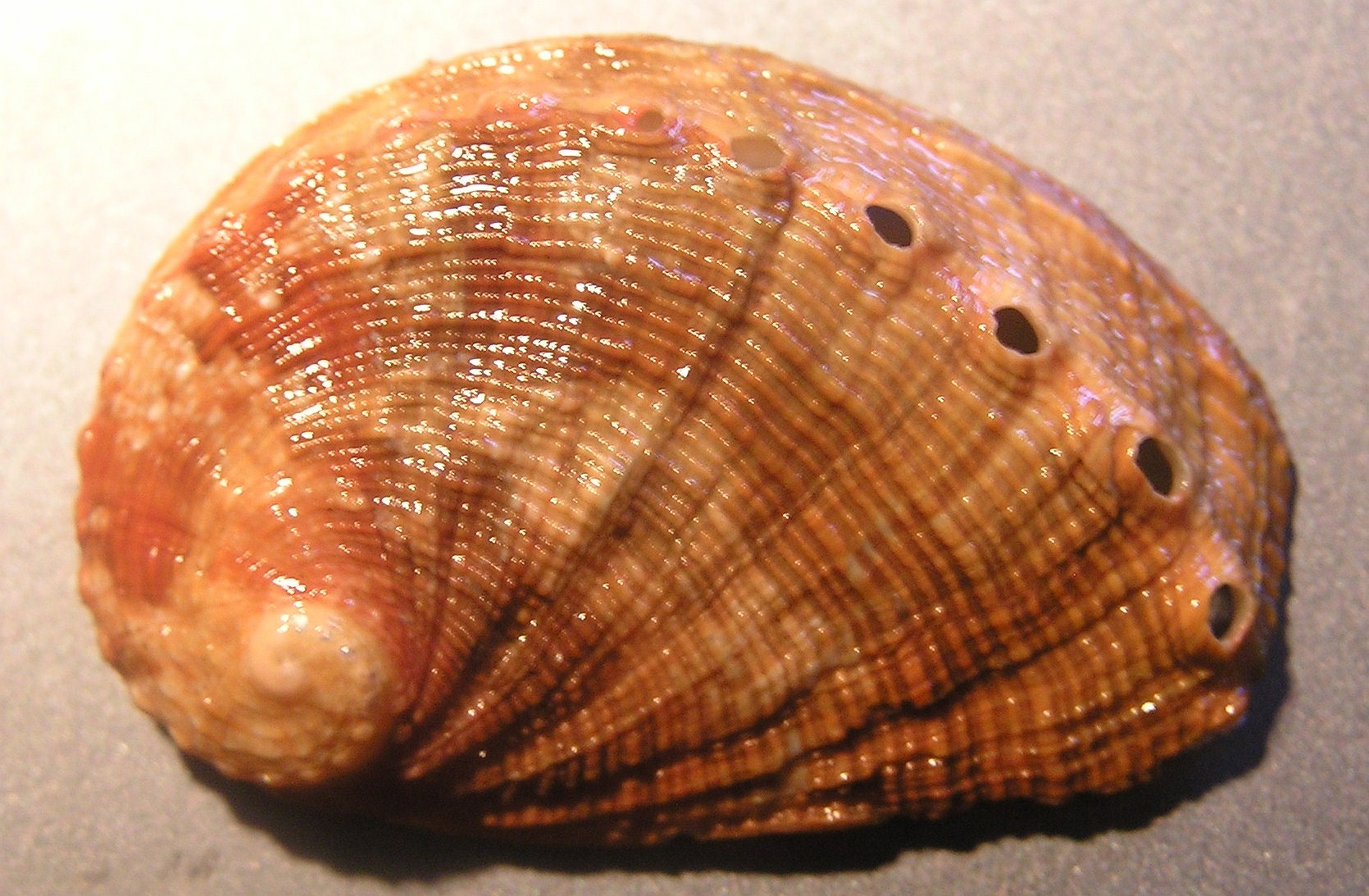 Haliotis stomatiaeformis L. A. Reeve, 1846, an abalone from the family Haliotidae